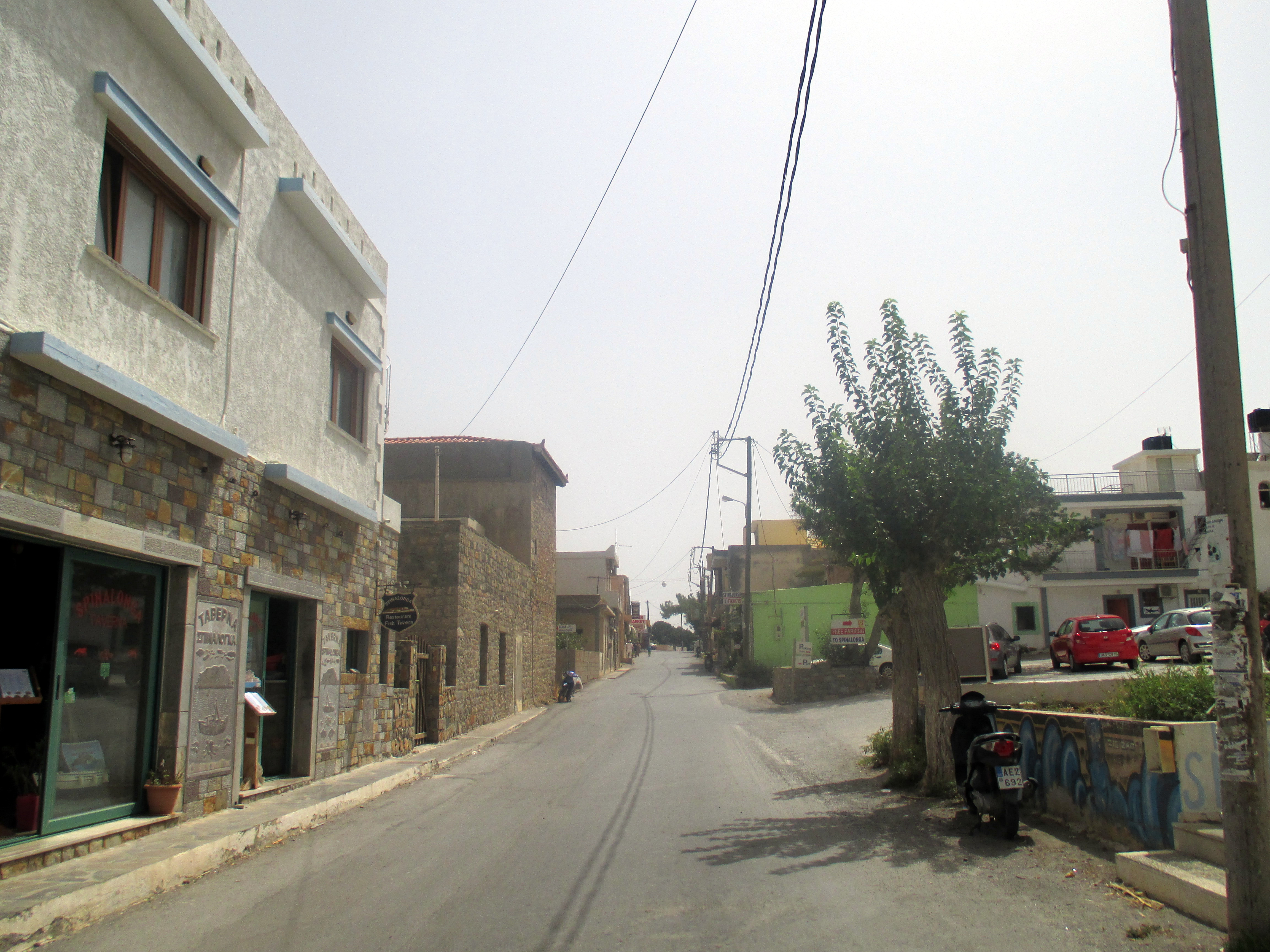 Plaka village, Lasithi, Crete, Greece.